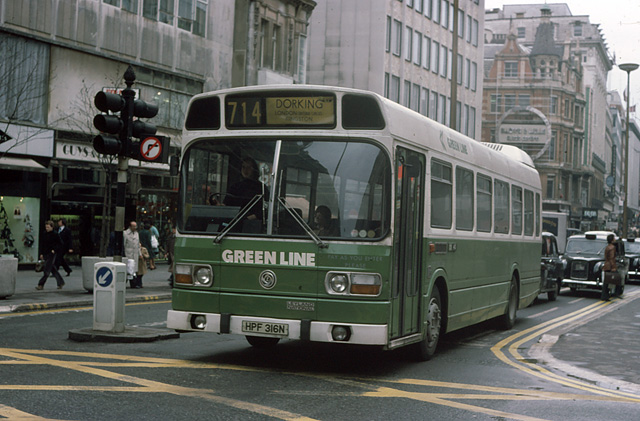 London Country (National Bus Company) Green Line branded bus SNC166 (reg. HPF 316N), a 1975 Leyland National single-decker, pictured in Oxford Street, City of Westminster, London, operating the cross-London express Green Line route 714 from Luton to Dorking.